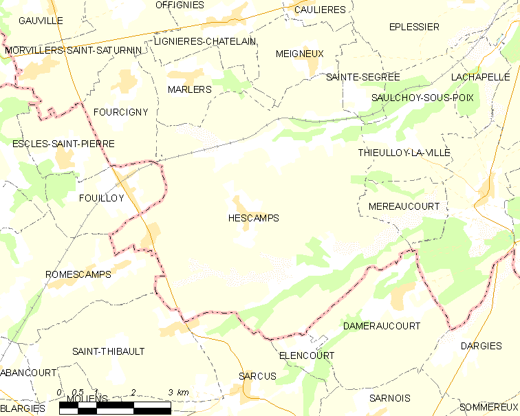 Map of French municipality Hescamps